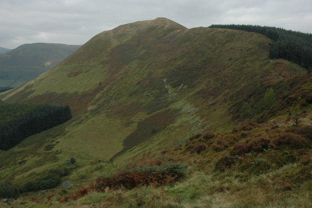 View towards Foel Dinas Foel Dinas viewed from Bwlch Siglen.